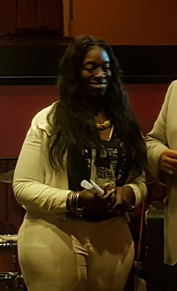 Antoinette Scott, first female recipient of the Purple Heart in the District of Columbia